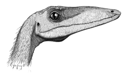 The theropod dinosaur Coelophysis bauri by John Conway [1]